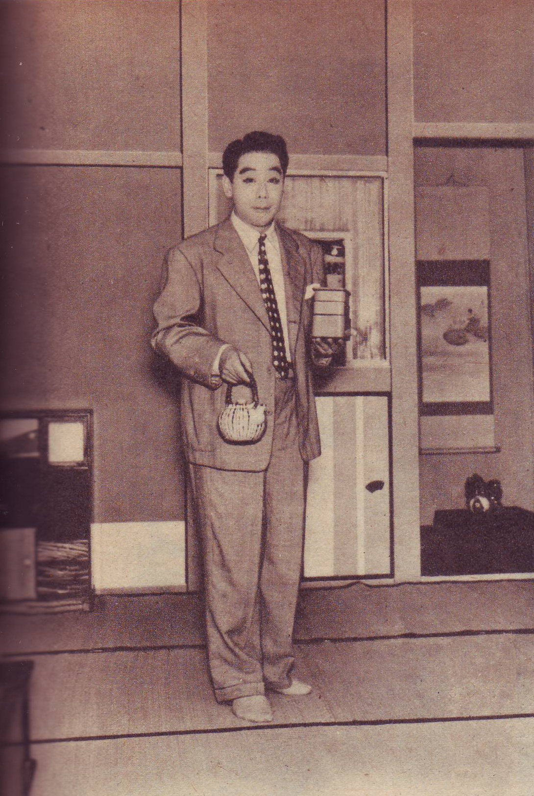 Meicho Soganoya (Actor from Japan). taken in July 1955.